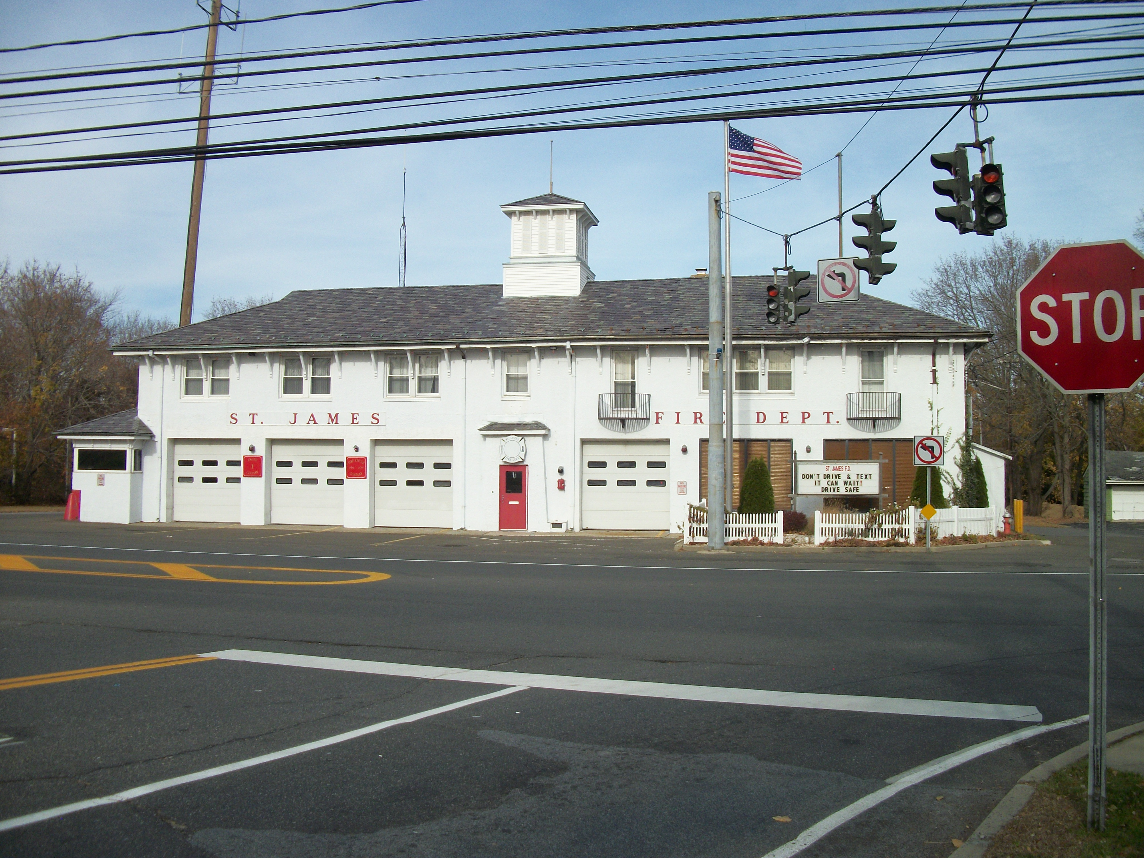 The Saint James Fire Department on New York State Route 25A and Lake Avenue South in Saint James, New York, once a contributing property to the Saint James District. The station has been upgraded, so whether or not it's still considered a contributing property isn't exactly certain.